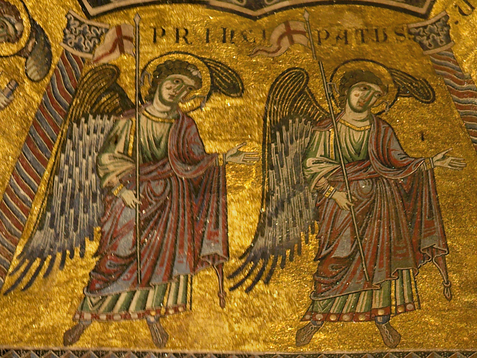 The mosaic ceiling of the Baptistery San Giovanni in Florece in total view (Stitched from 20 images, exif from one image)